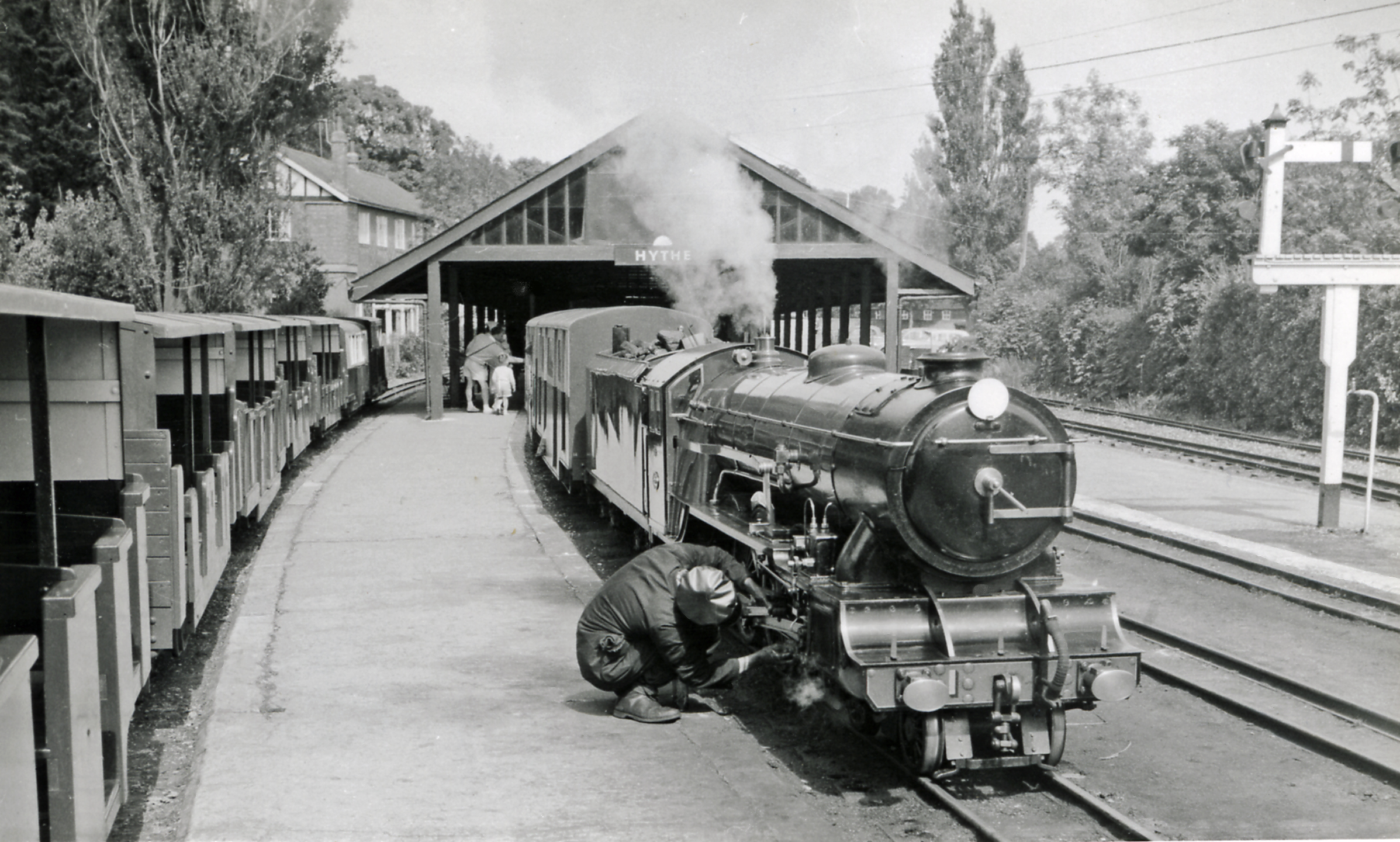 Hythe RH&DR station, with train, 1962. View eastward, towards the terminus of the Romney, Hythe & Dymchurch miniature Railway, with a train for New Romney headed by 4-6-2 No. 1 'Green Goddess' and his comparatively giant driver oiling up.